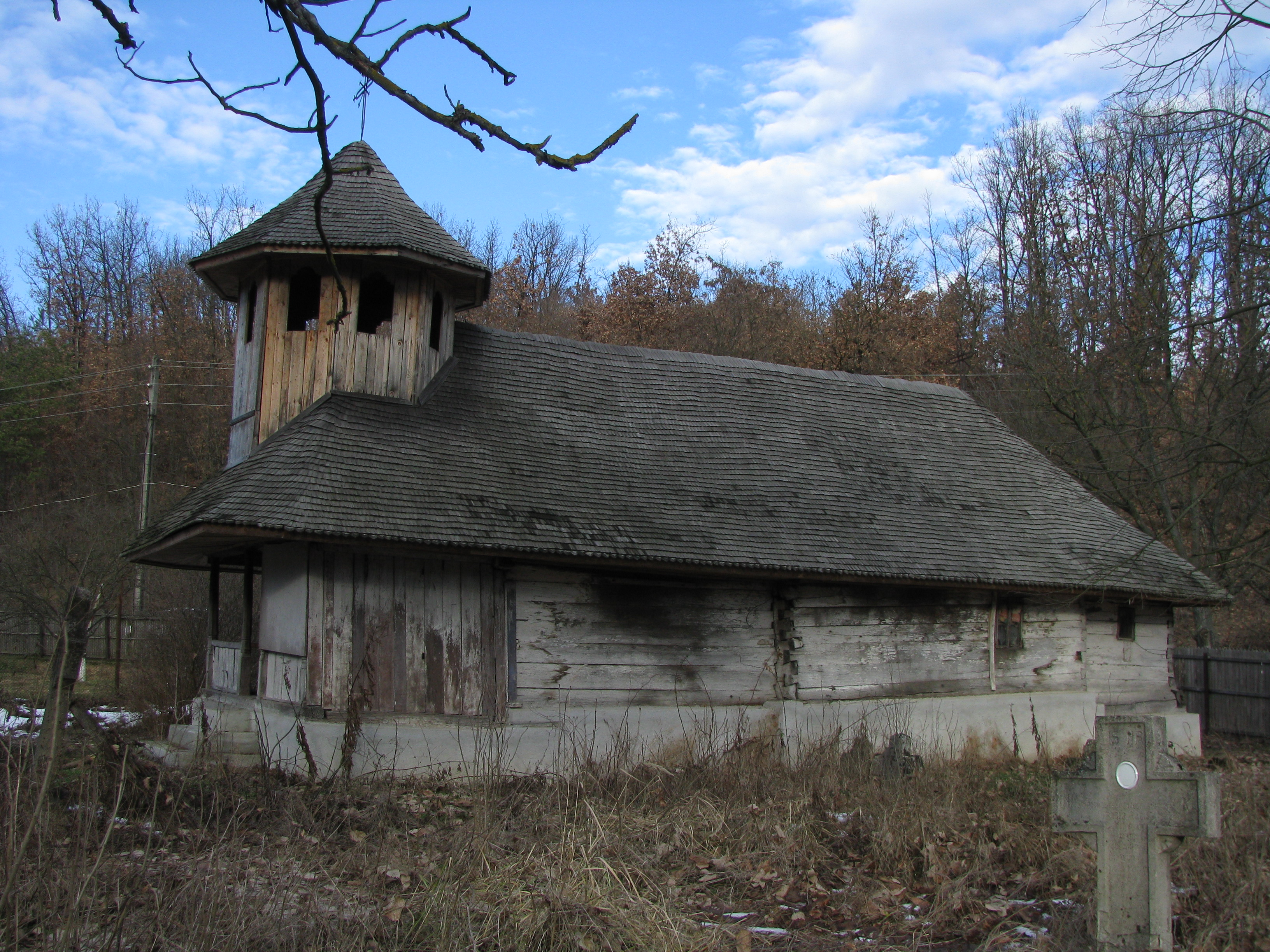 Wooden church "Cuvioasa Paraschiva" from Valea Caselor village, Valea Mare commune, Dâmbovița county, Romania